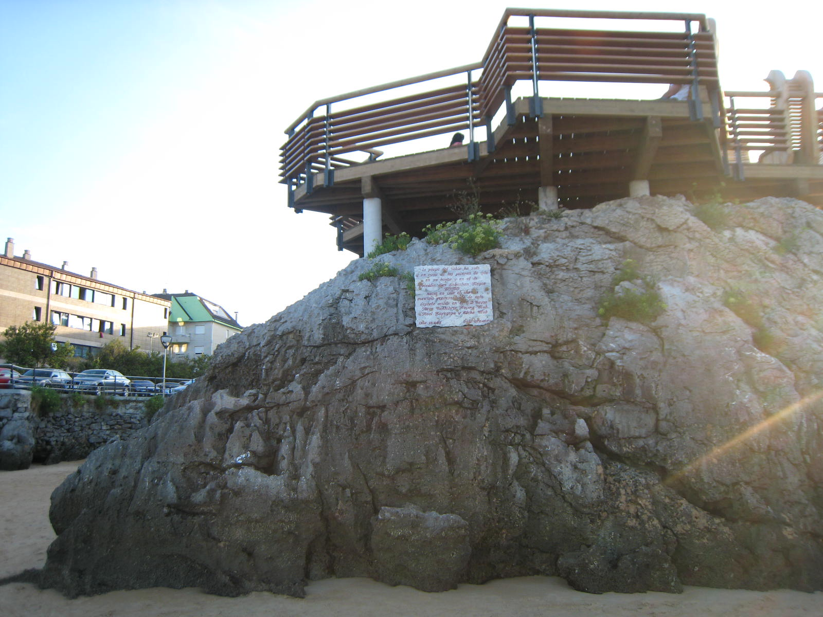 Beach of Quejo in Cantabria (Spain)